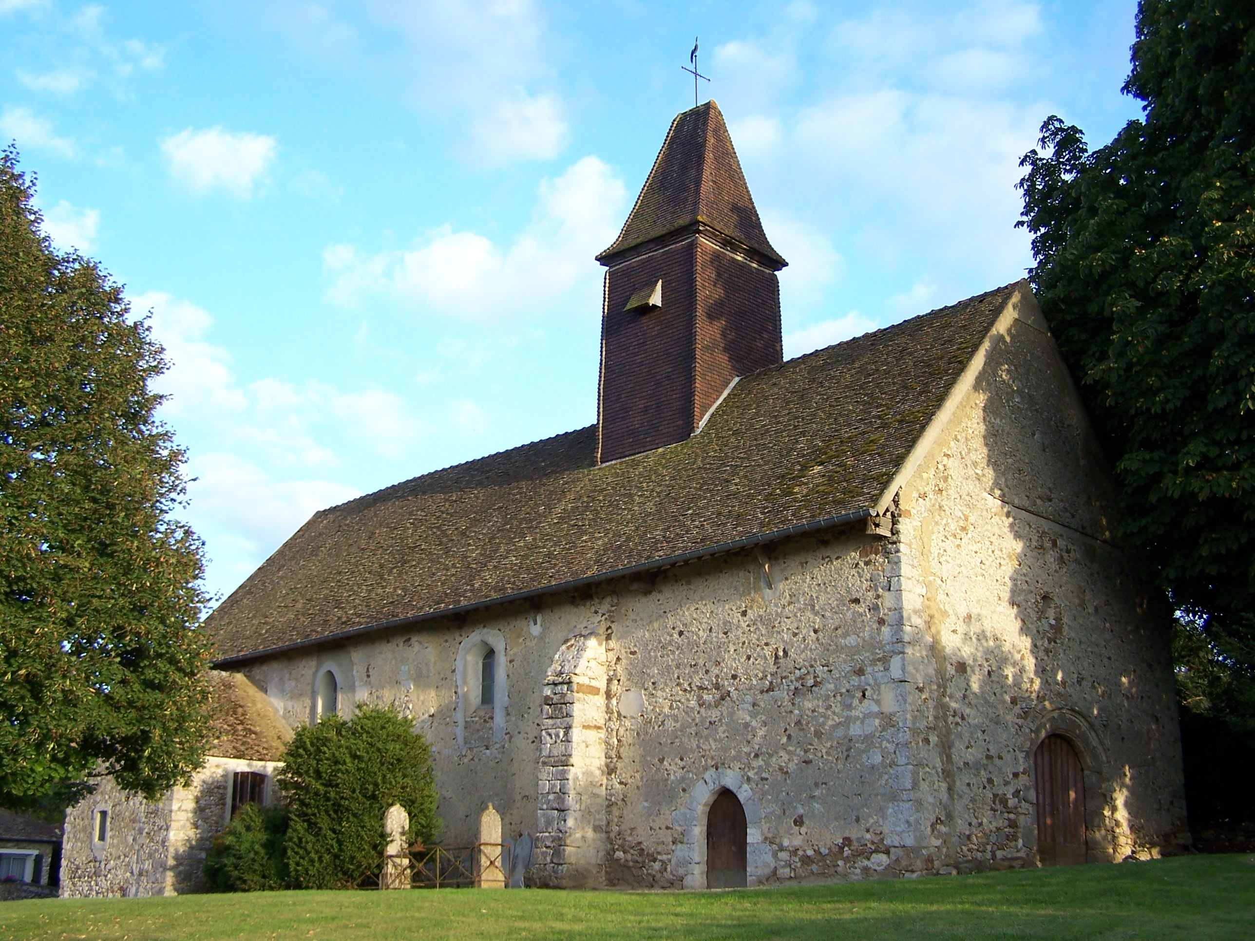 Church Saint martin of Prunay-le-Temple (Yvelines, France)